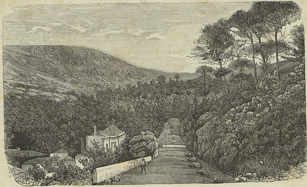 Drawing of the Monchique Spa, in southen Portugal. This drawing was based on a photograph. This image was originally published in the Occidente magazine No. 355, of the 1st November 1888, and scanned by the Hemeroteca Municipal de Lisboa.